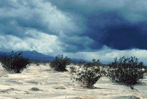 Dunes at the Coachella Valley National Wildlife Refuge